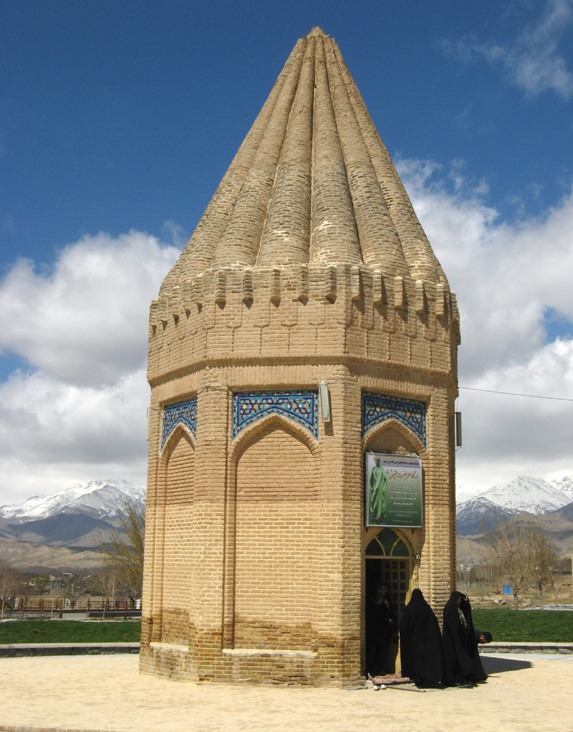 The Habakuk mausoleum, in Tuyserkan, Iran.